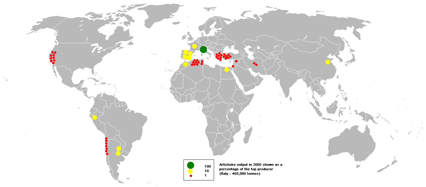 This bubble map shows the global distribution of artichoke output in 2005 as a percentage of the top producer (Italy - 469,980 tonnes). This map is consistent with incomplete set of data too as long as the top producer is known. It resolves the accessibility issues faced by colour-coded maps that may not be properly rendered in old computer screens. Data was extracted on 18th June 2007 from Based on :Image:BlankMap-World.png